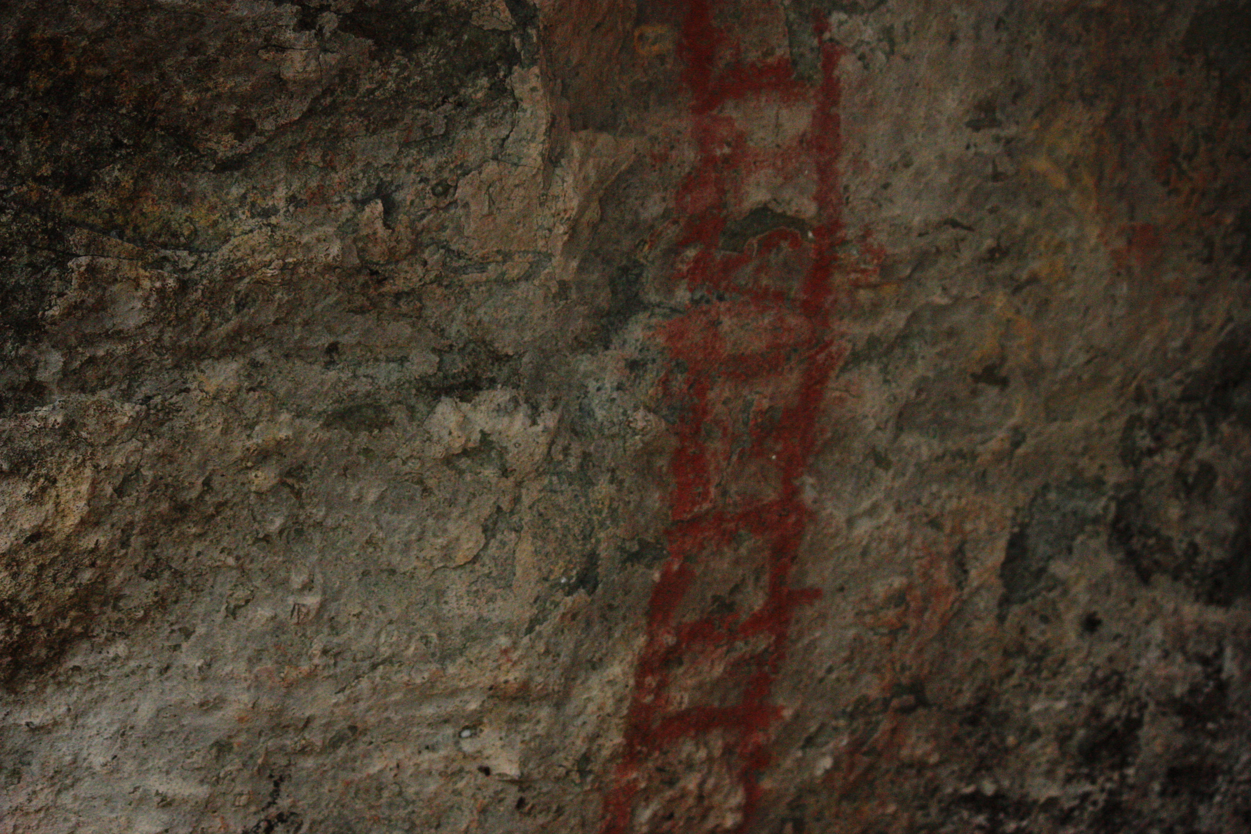 Replication of a Ngaro cave painting in Nara Inlet, Hook Island, Whitsunday Islands, Queensland, Australia. The age of the painting is unable to be authenticated. Subject may be nonfigurative ("dream-time" doodling) or may indicate that a ladder is required to reach additional caves in the area where prominent aborigine elders were buried. It may also represent a trail or path as some similar aborigine paintings do, or perhaps the trunk of a coconut palm tree. The Ngaro people would not likely be aware of coconut palms unless they had traveled great distances or communicated with other peoples in Southeast Asia.